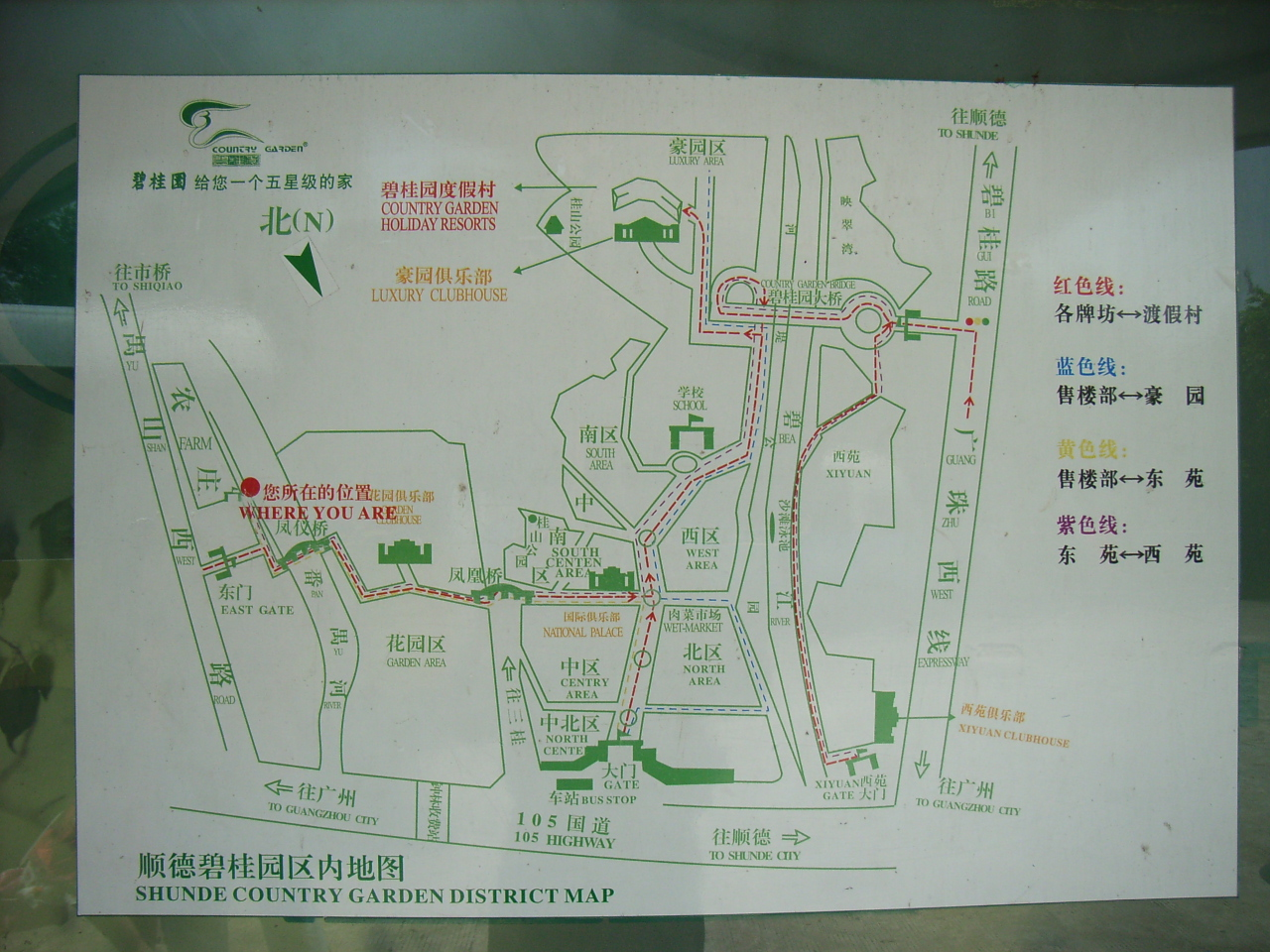 Guangdong, 順德碧桂園, Shunde Country Garden, Created by SDBKU.